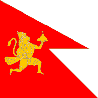 Summary Drapeau des principautés de Dewas Senior et Junior Source Nataraja Statut Nataraja